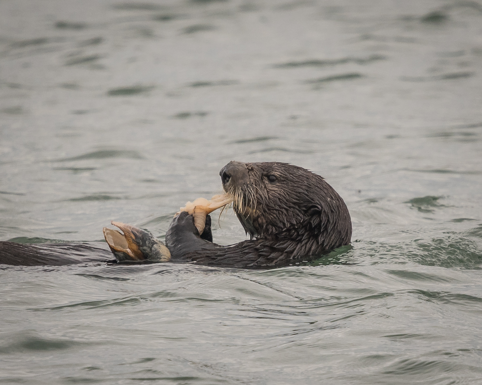 Elkhorn Slough, Moss Landing, California Explored 4/07/17 #111